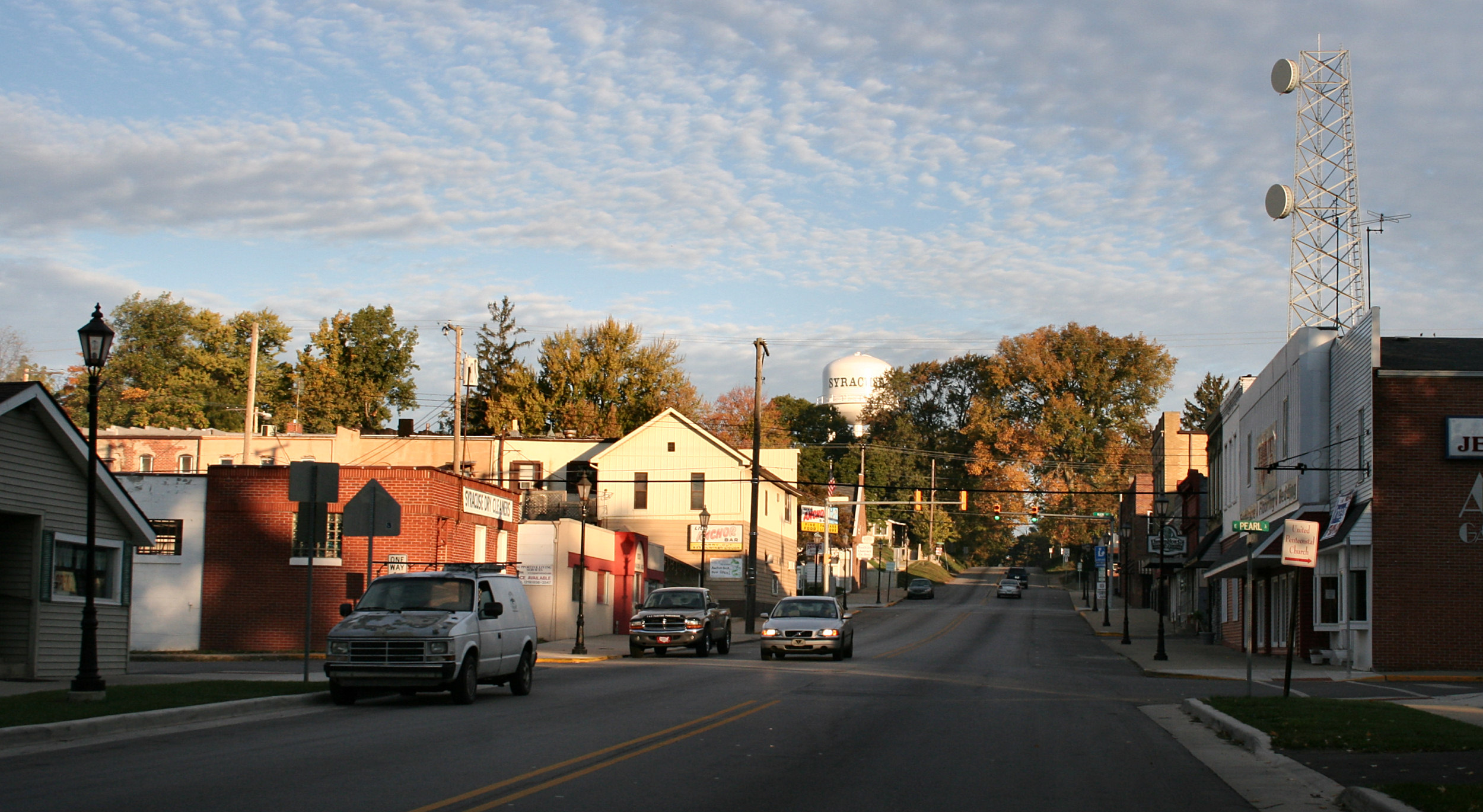 Downtown Syracuse, Indiana. Photo shot by Derek Jensen (Tysto), 2005-October-17